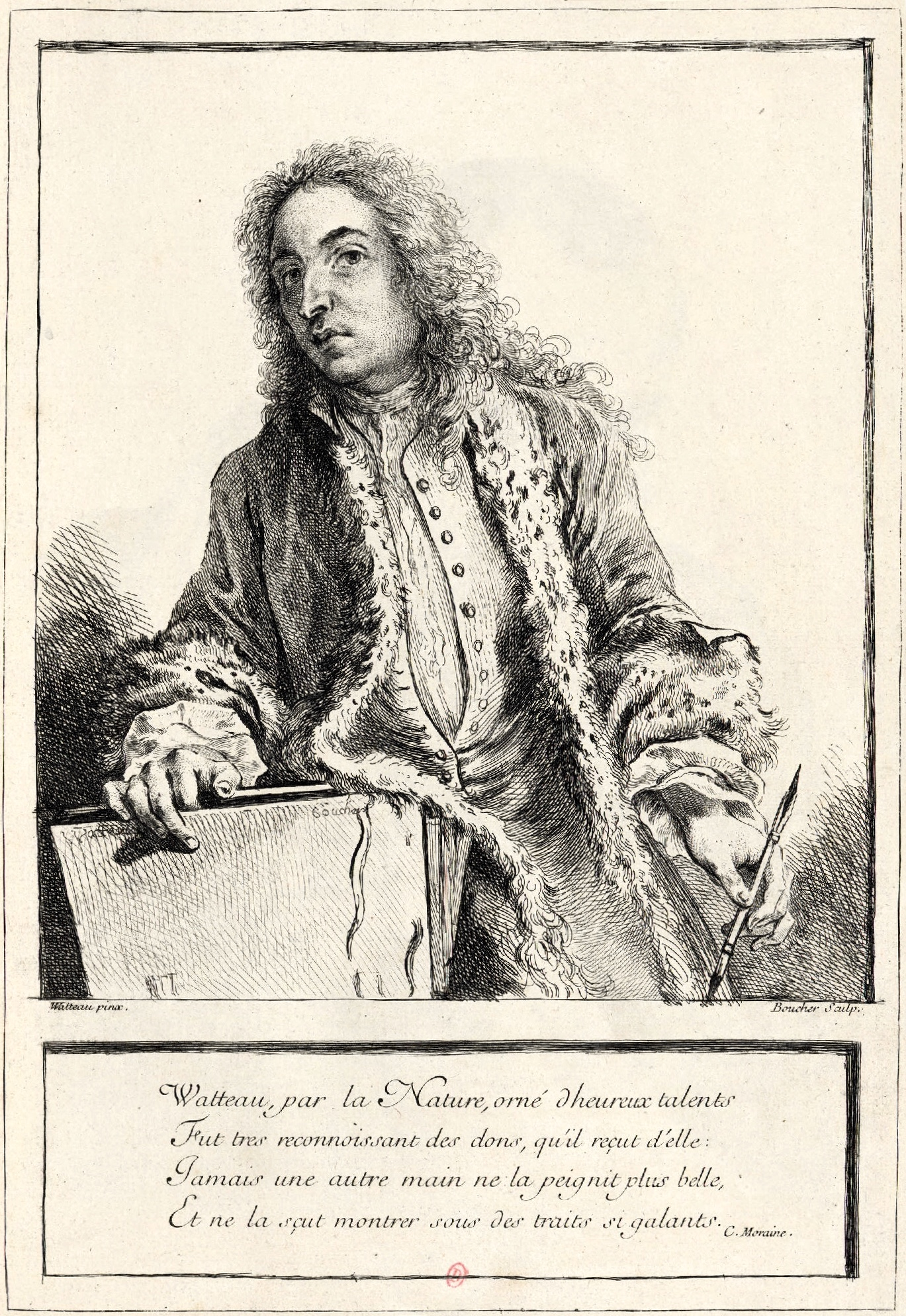 Portrait of Antoine Watteau